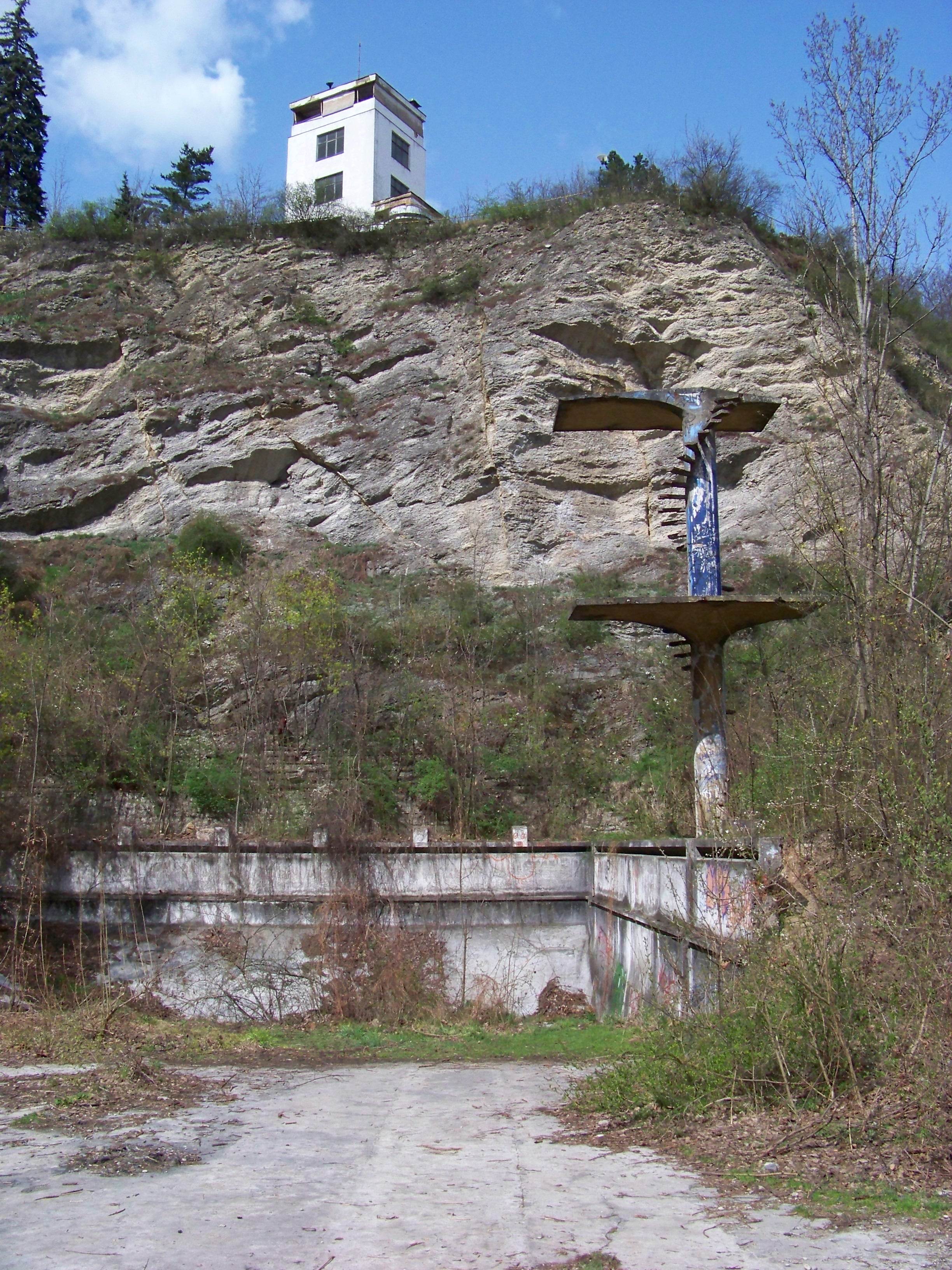 Prague-Hlubočepy, the Czech Republic. Barrandov Rocks, the former swimming pool and Barrandov Teraces.